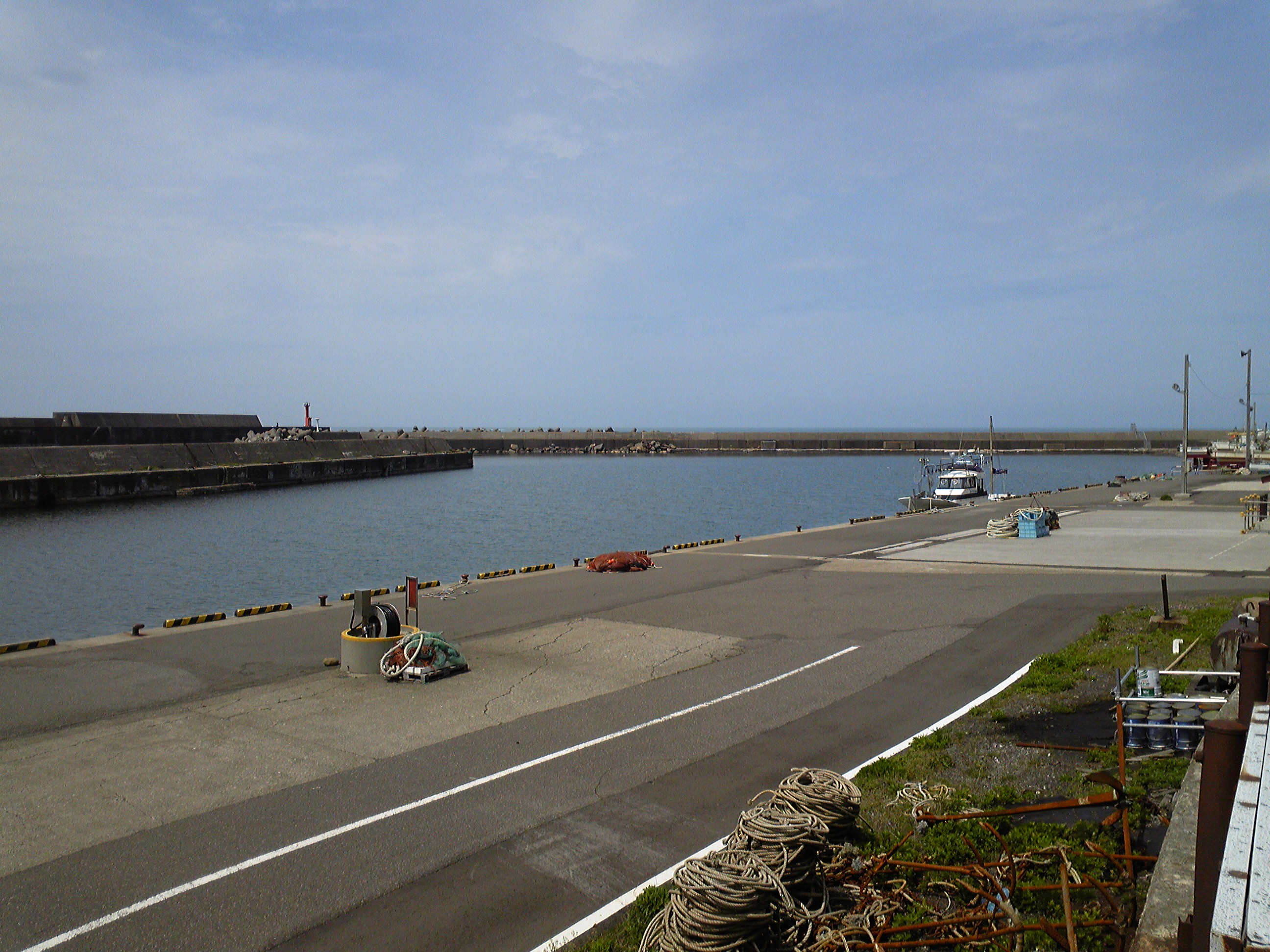 Nadachi Port in Niigata, Japan.